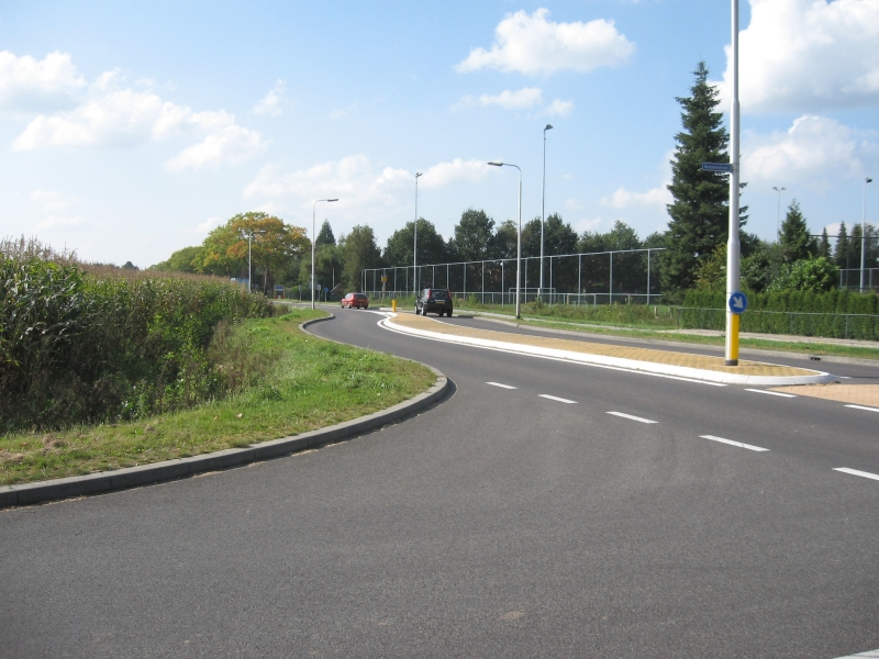 Dutch Provincial Road 740 near Hengevelde